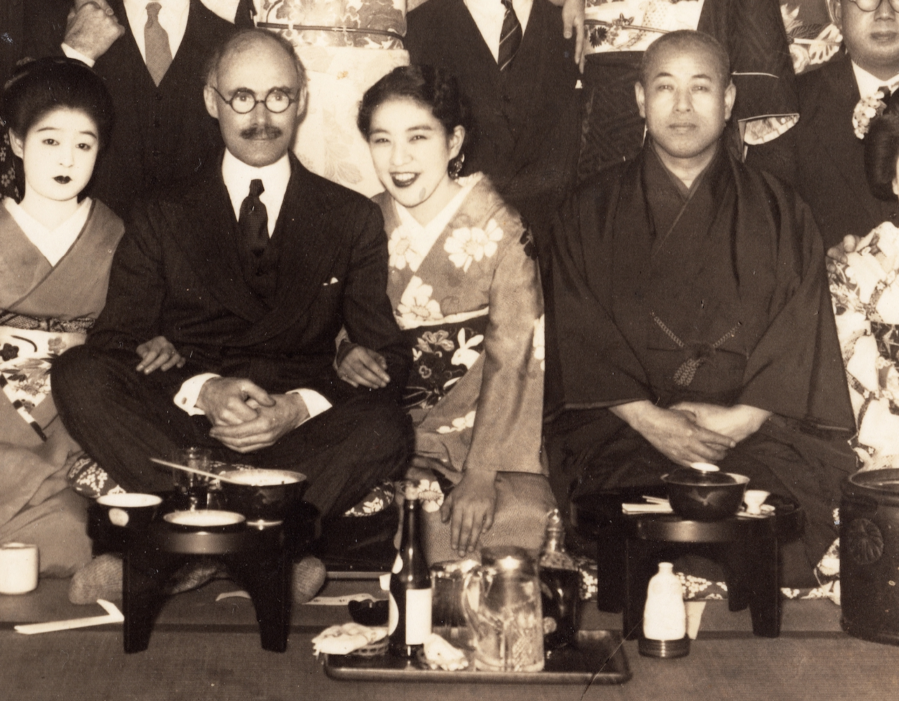 Robert Craigie at a farewell party hosted by deputy minister of the Navy, Isoroku Yamamoto